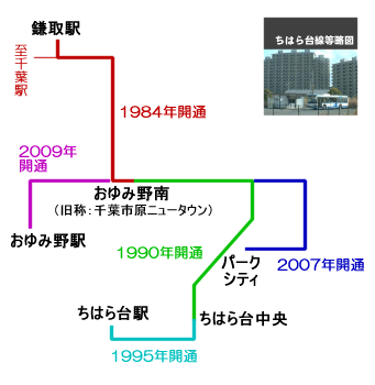 Chiharadai and Chiharadai-higashi lines of Chiba-chuo bus